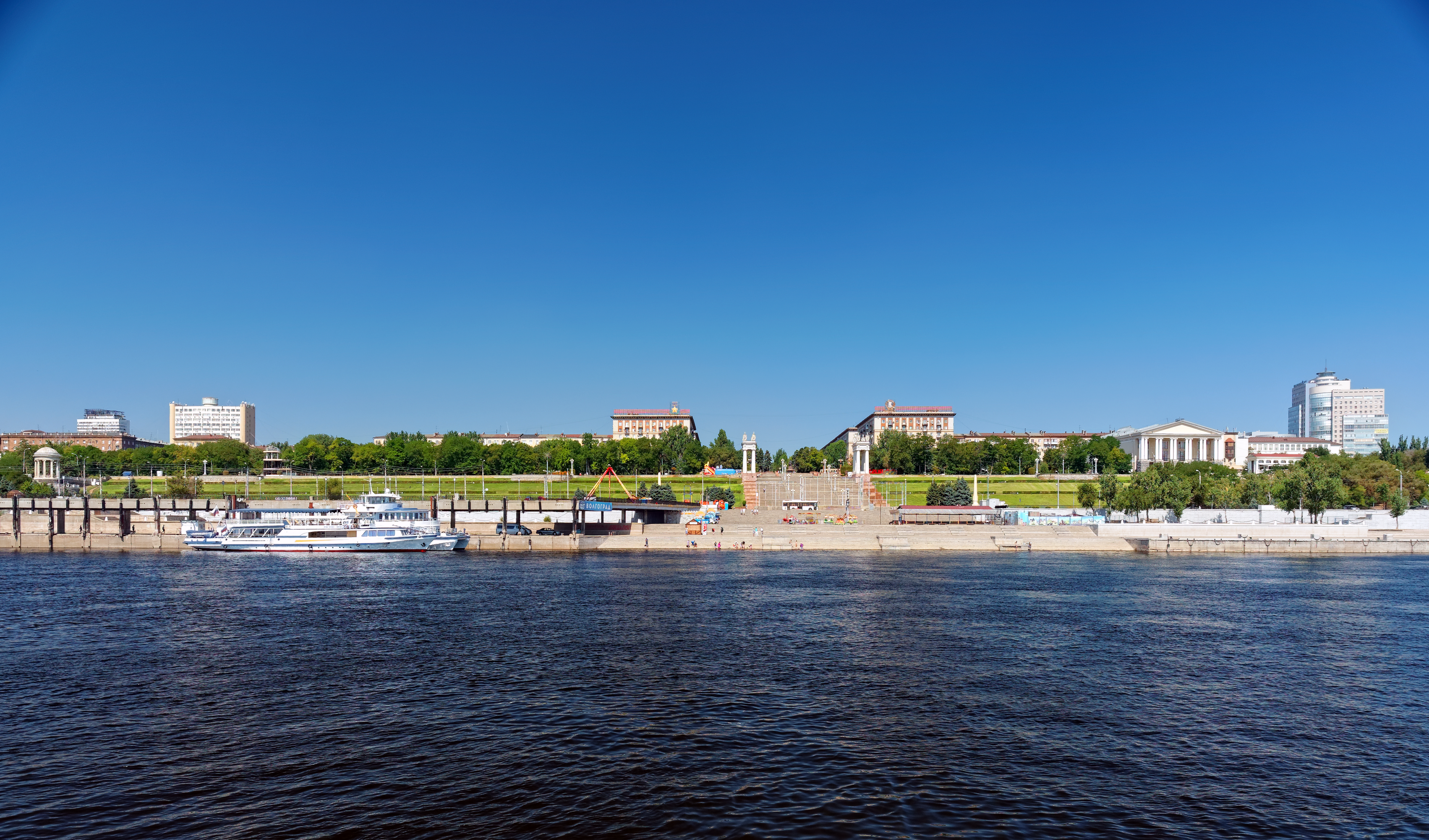 Volgograd. The central embankment